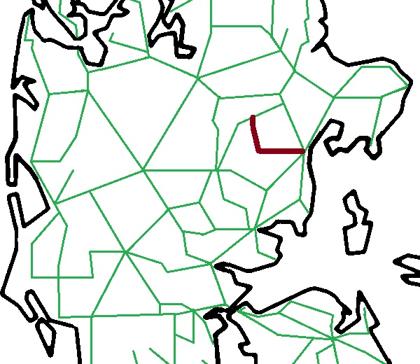 Map of railways in Middle Jutland in Denmark with the private railway Aarhus-Hammel-Thorsø Jernbane in brown.